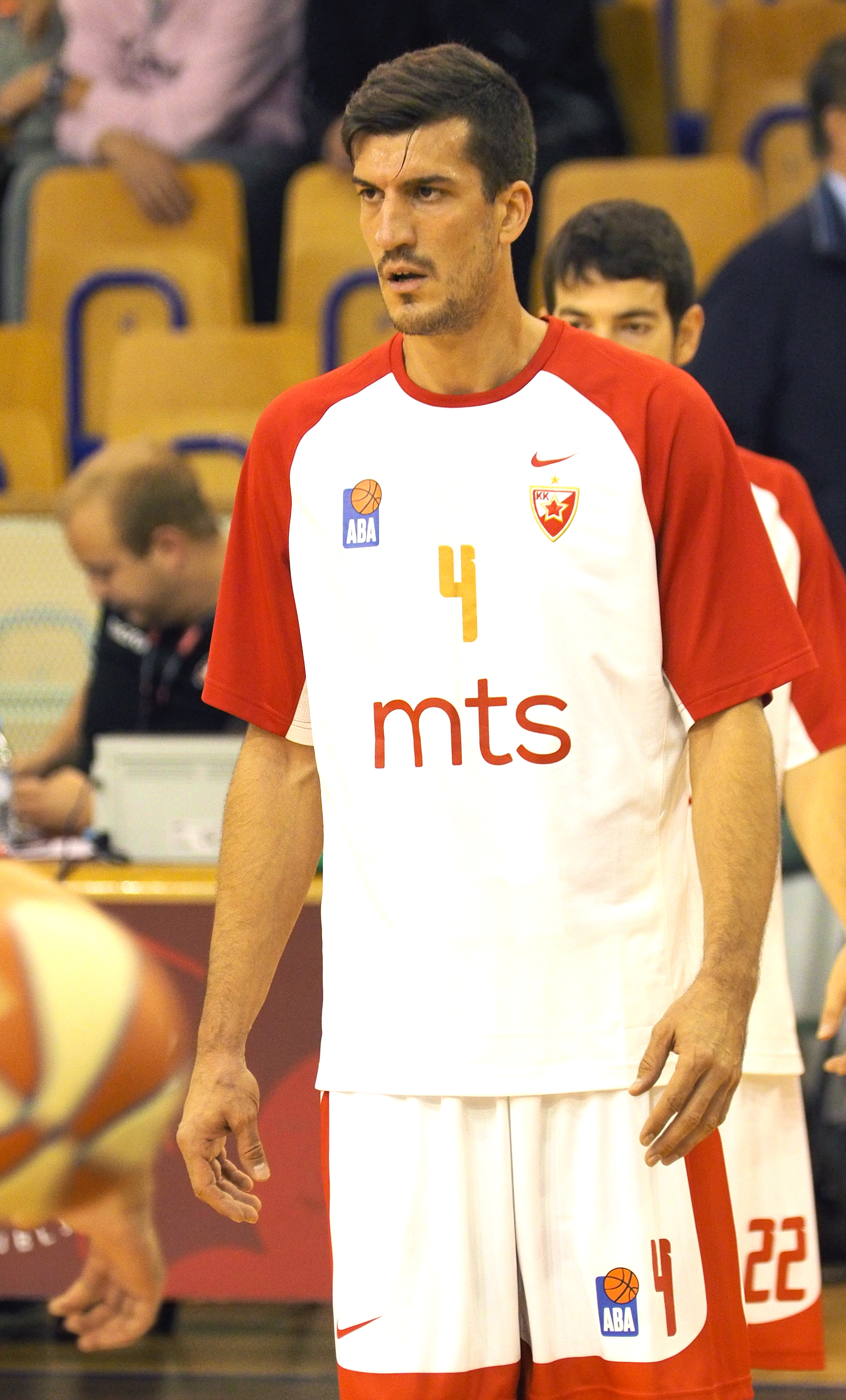 Marko Kešelj playing for KK Crvena zvezda (basketball), 2017 This photograph was taken with a Olympus E-M1.